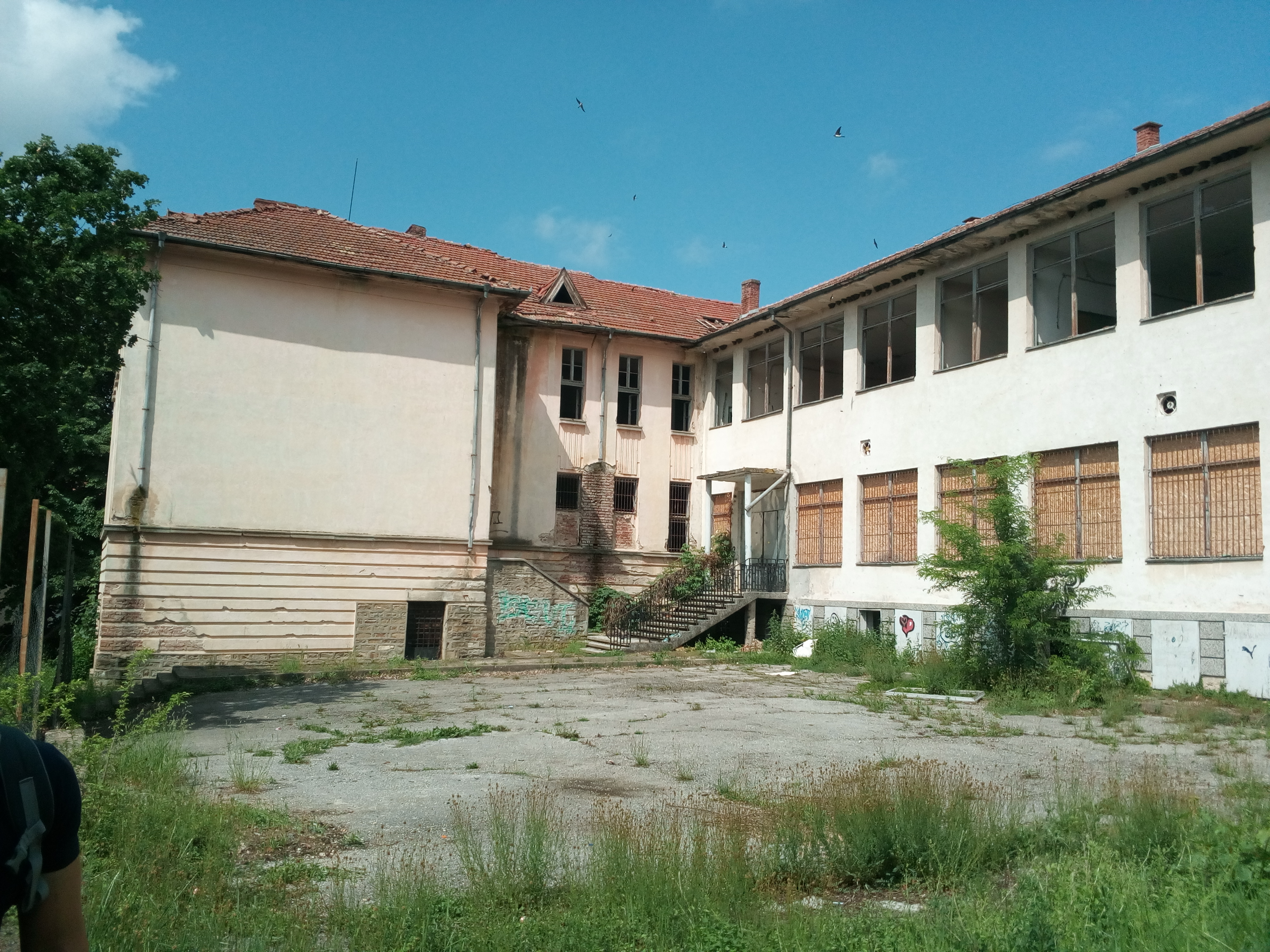 School in Prisovo